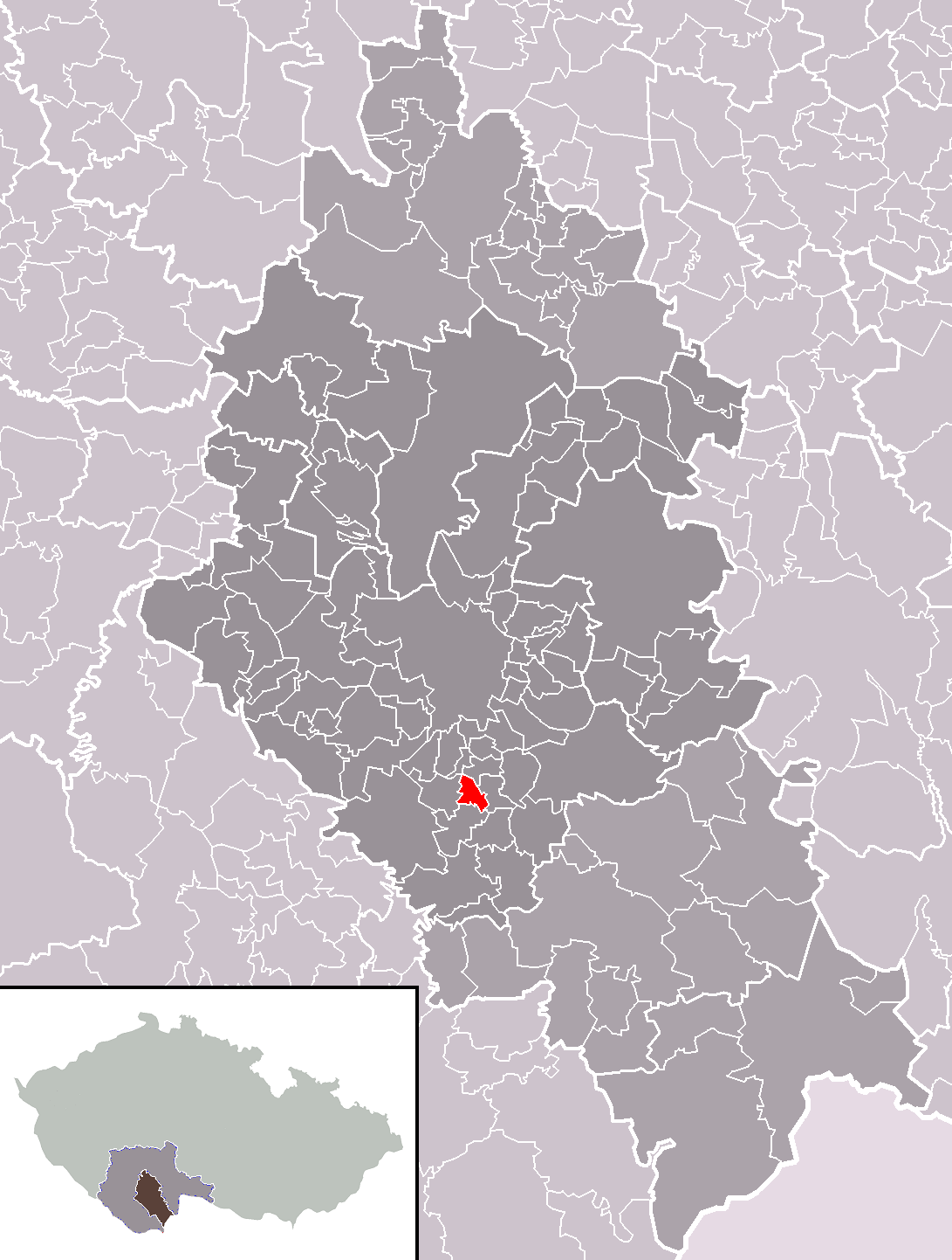 Location of Heřmaň municipality within České Budějovice District and administrative area of České Budějovice as a Municipality with Extended Competence.